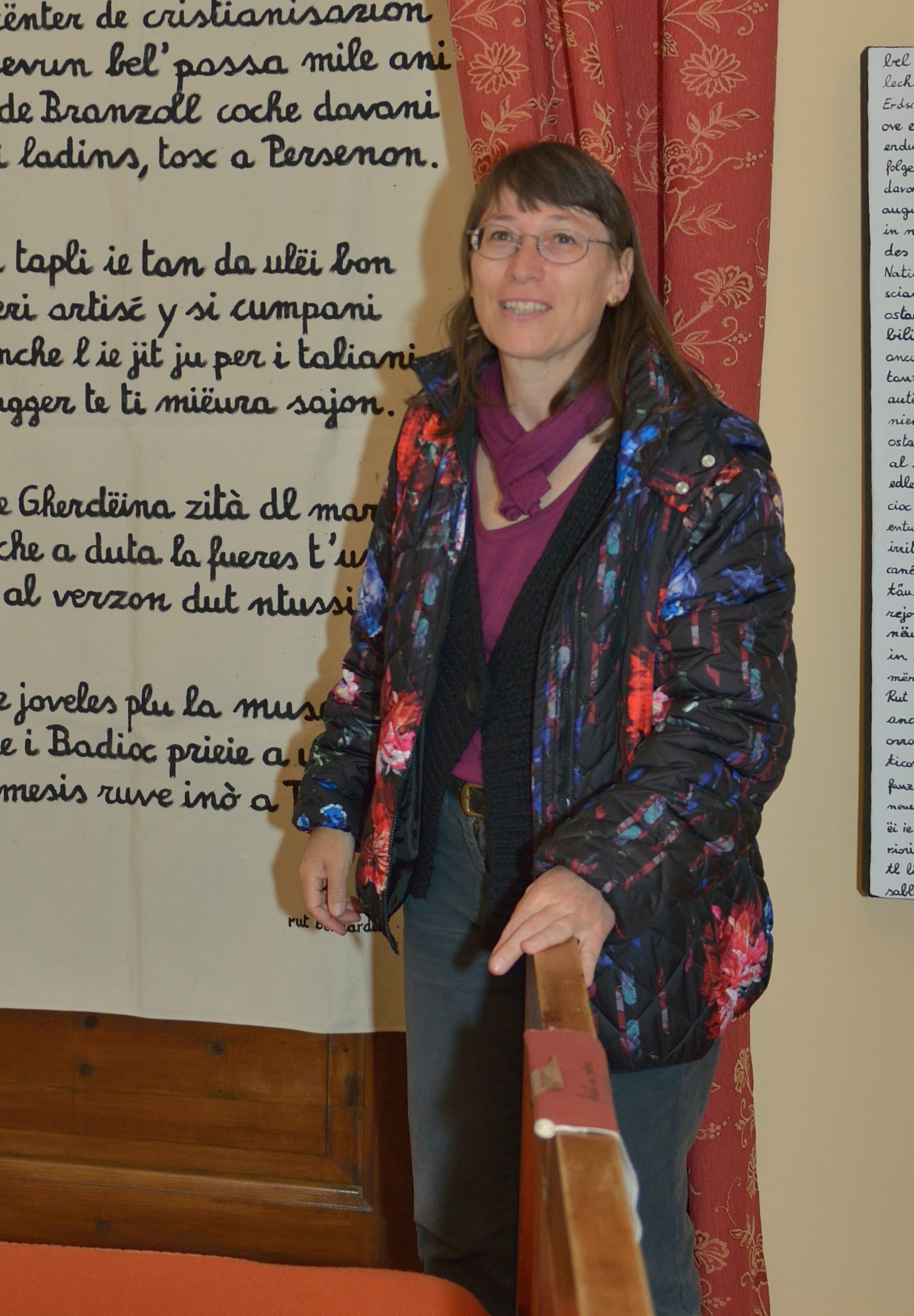 Rut Bernardi, writer from Val Gardena